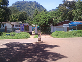 Economics and Technical Services Divisions